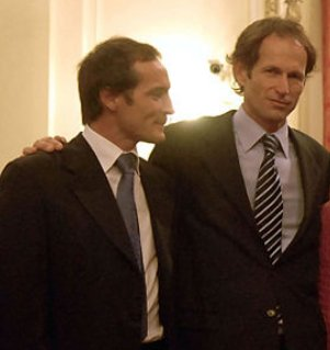 Carlos Espínola and Santiago Lange. During the reception of Argentina President Cristina Fernández to olympic medalists in the Pink House. Fragment: full picture here